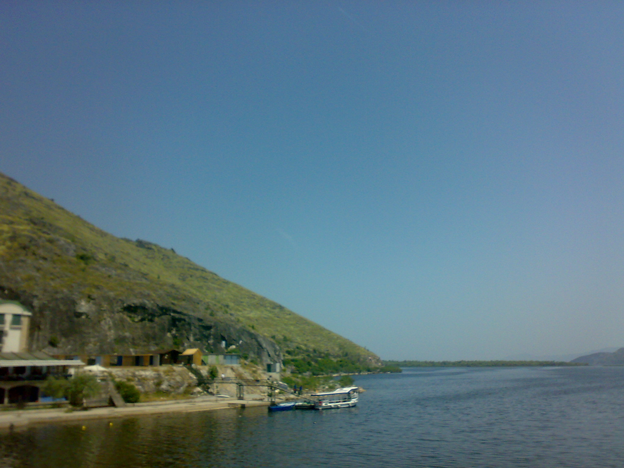 Skhoder Lake, Skadarskoe jezero, Montenegro